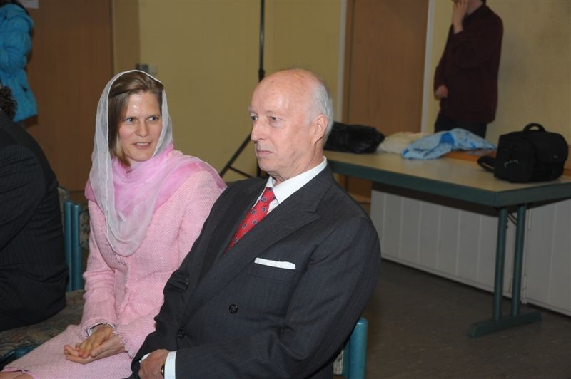 Karl Emich of Leiningen and his wife on the day of conversion to Orthodox Christianity in the church of Nurnberg, Germany